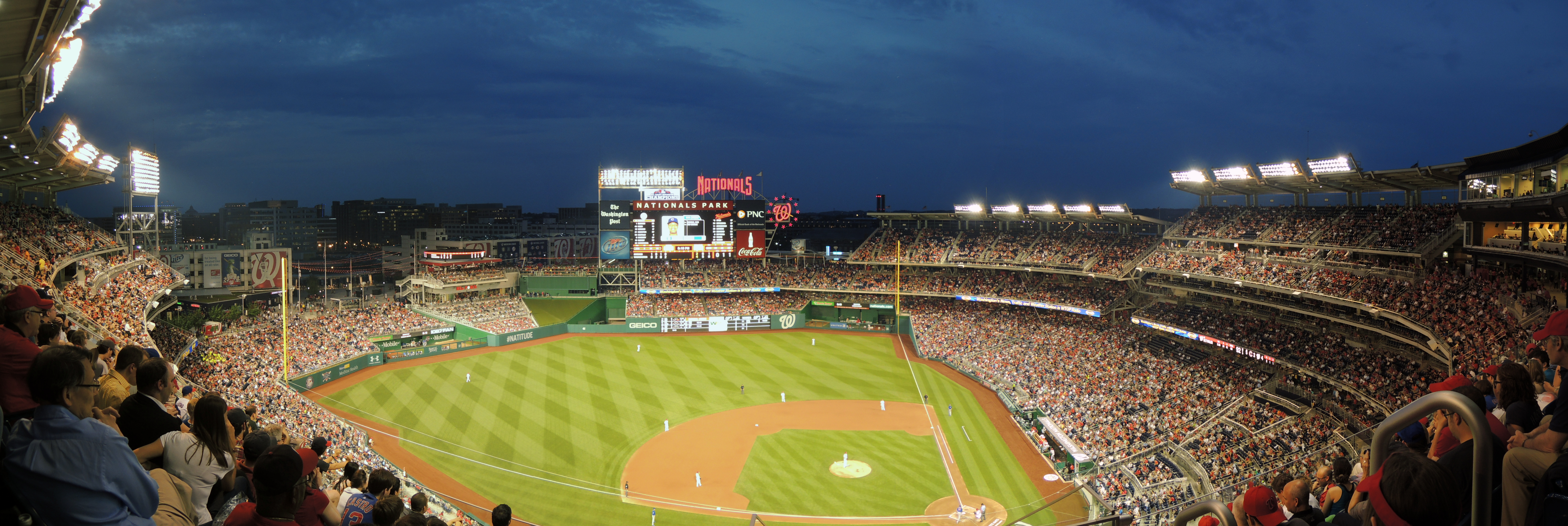 Panorama of Nationals Park on 5/10/13 vs. Cubs